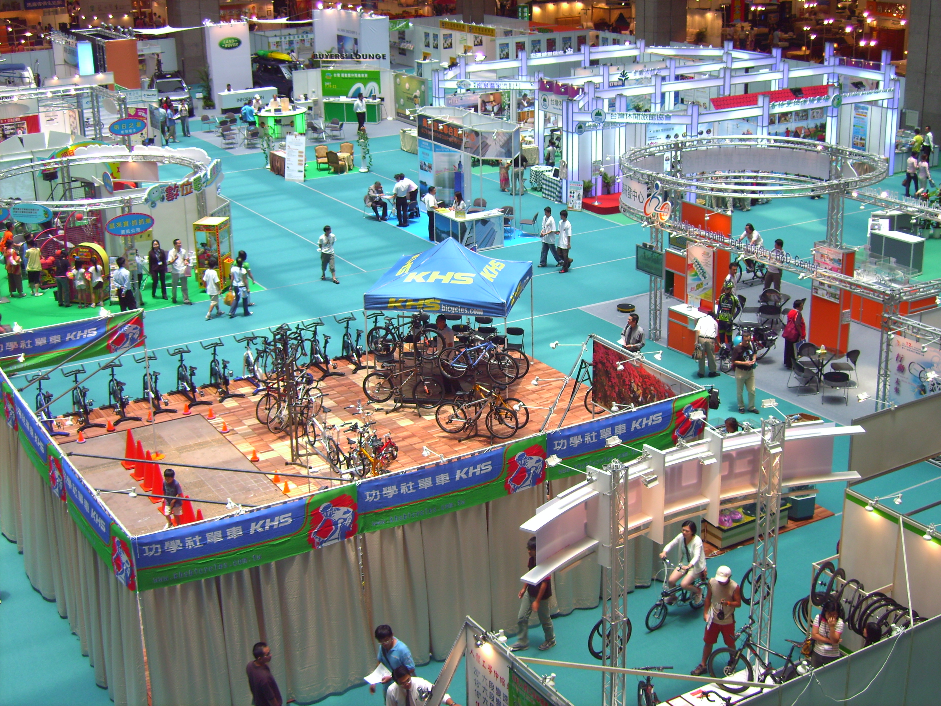 Leisure Taiwan 2007 at TWTC Hall 1 Area D.